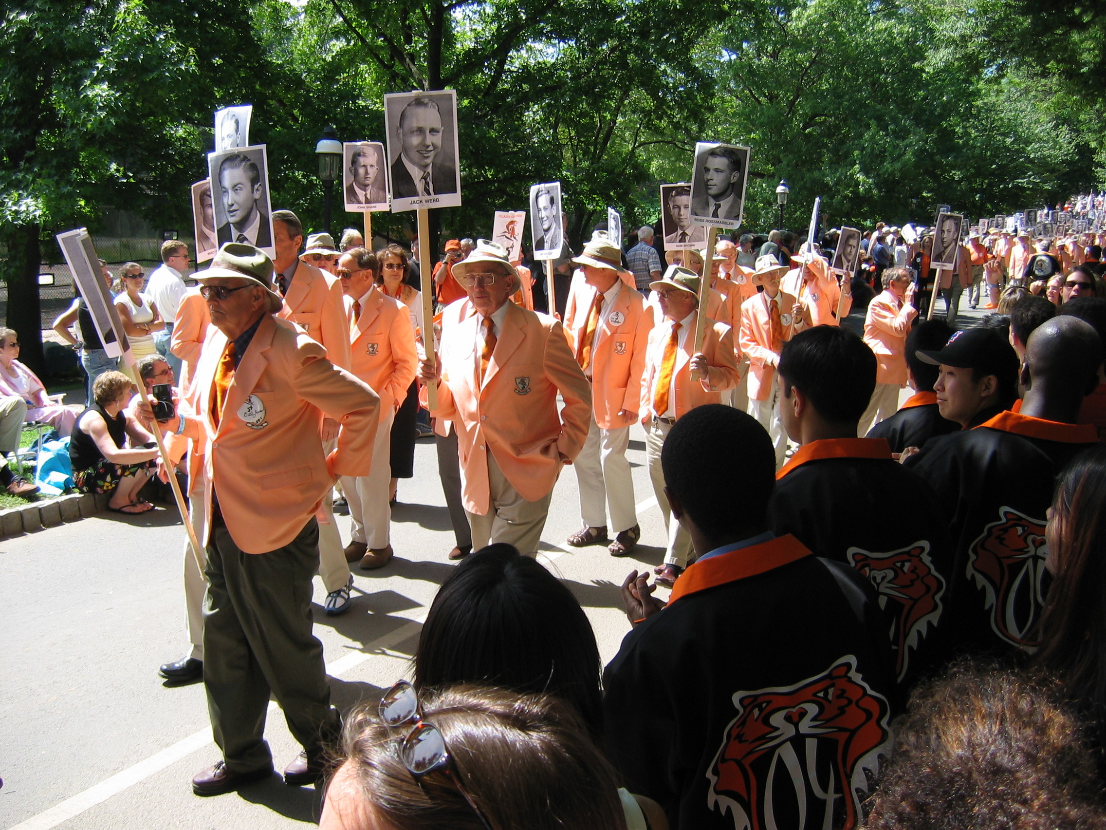 Class of 1954 at the 2004 p-rade.